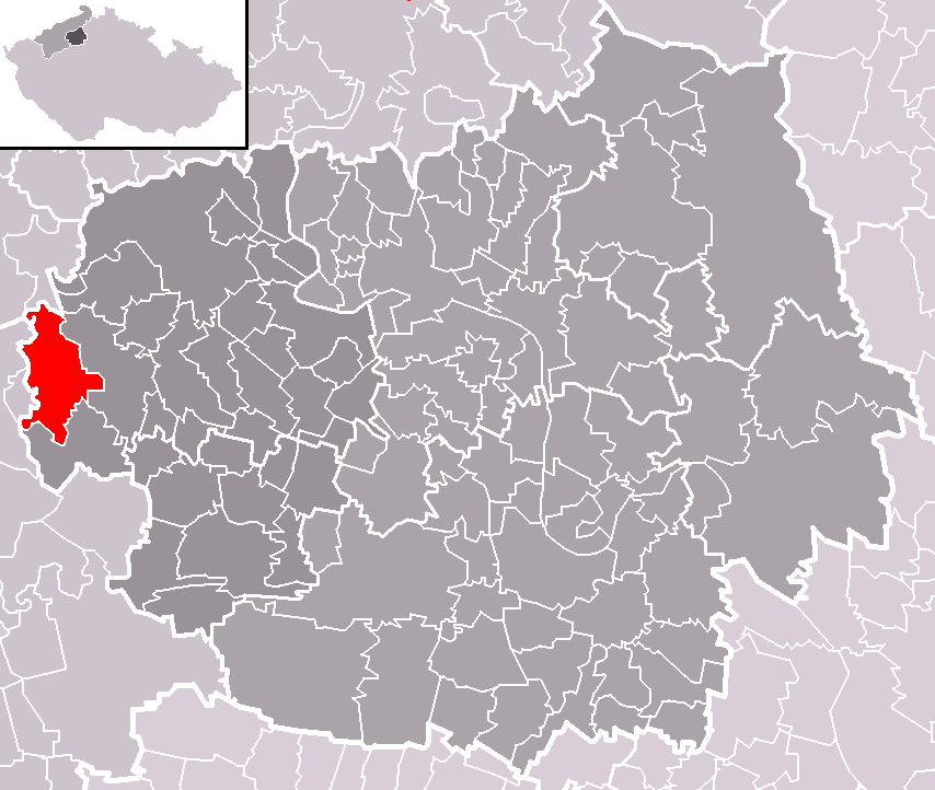 Location of Třebívlice municipality within Litoměřice District and administrative area of Lovosice as a Municipality with Extended Competence.